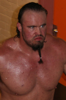 Gene Snitsky makes his entrance on a WWE house show held in Kitchener, Ontario, Canada on August 12, 2005.